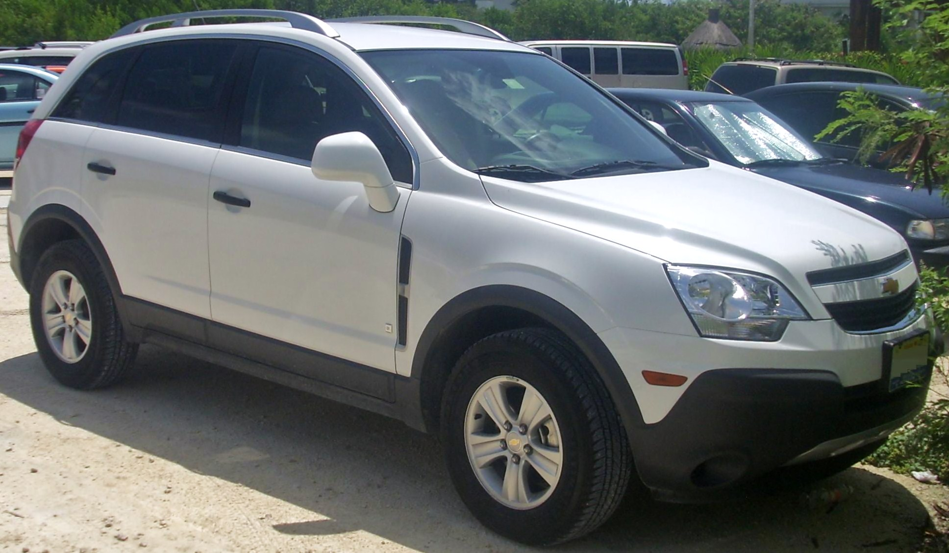 2009 Chevrolet Captiva photographed in Cancun, Quintana Roo, Mexico